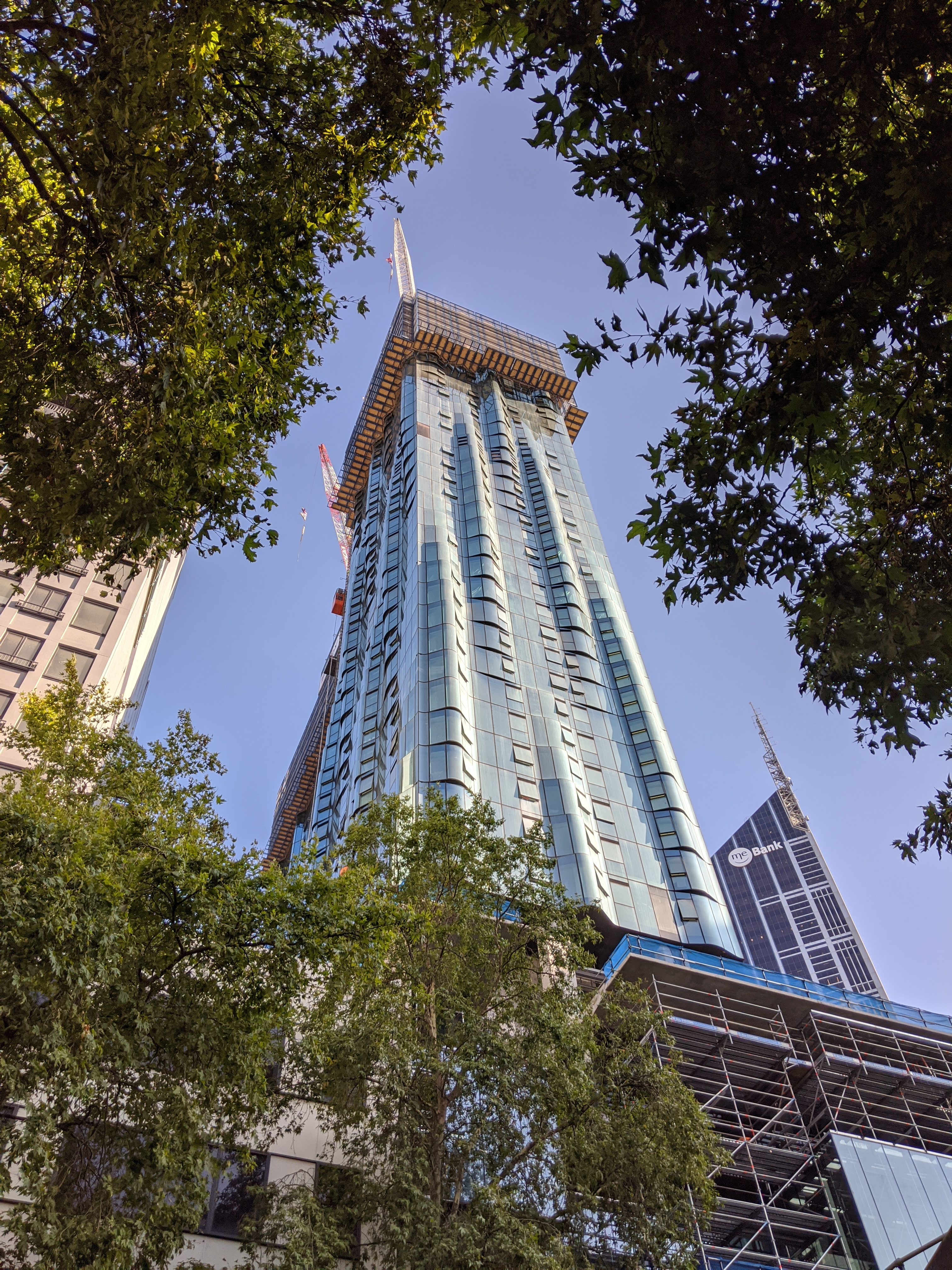 Elenberg Fraser tower 380 Lonsdale, photographed in 2020 Melbourne.